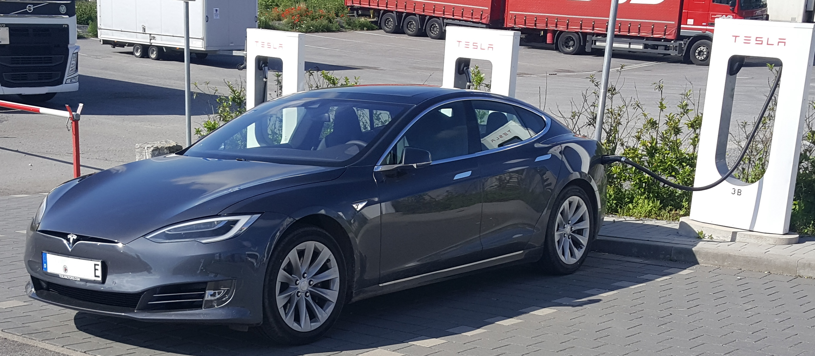 Tesla Model S Facelift at Supercharger